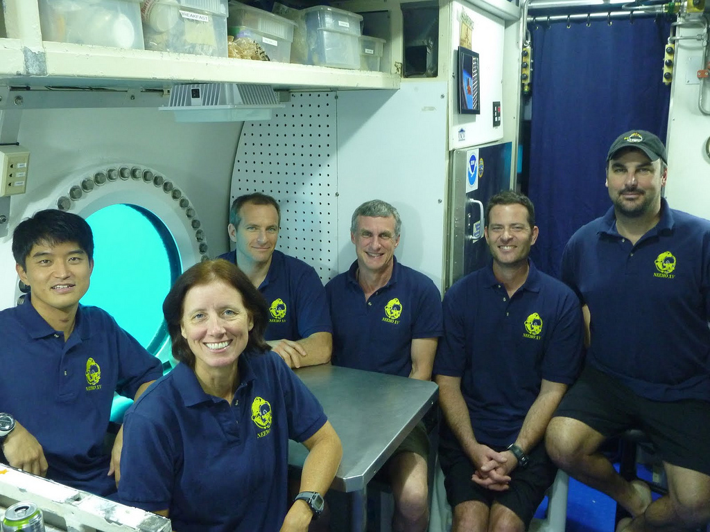 The crew of NEEMO 15 poses for one last crew portrait in the Aquarius underwater habitat in October 2011. Left to right: JAXA astronaut Takuya Onishi, NASA astronaut and NEEMO 15 commander Shannon Walker, CSA astronaut David Saint-Jacques, Cornell University astrophysicist Steve Squyres, and Aquarius habitat technicians Nate Bender and James Talacek. NASA photo in public domain.